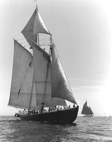 Schooner Adventure Archives